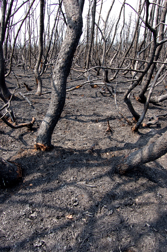 Forest in Smiltynė, Neringa (Lithuania) after the fire.